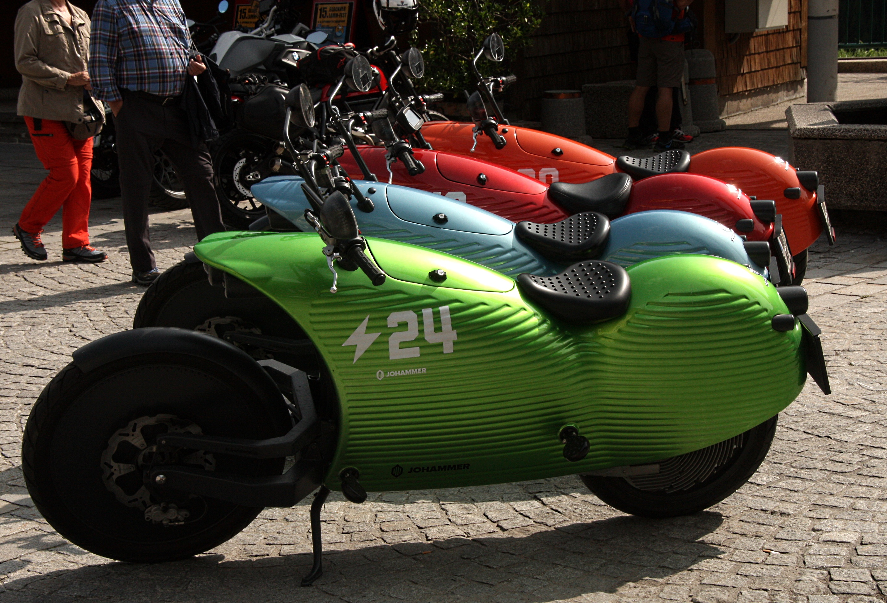 four Johammer J1 in Heiligenblut, Austria